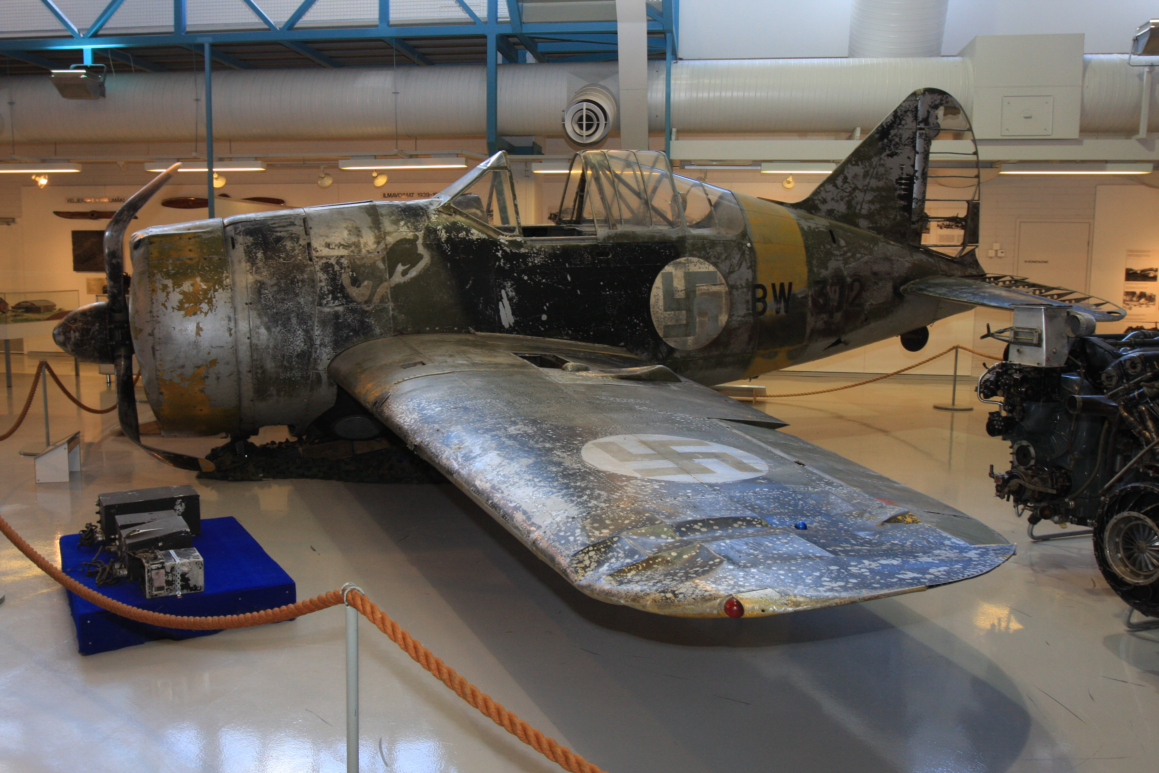 Lauri Pekuri`s Brewster B-239 BW-372 in Tikkakoski Keski-Suomen ilmailumuseo